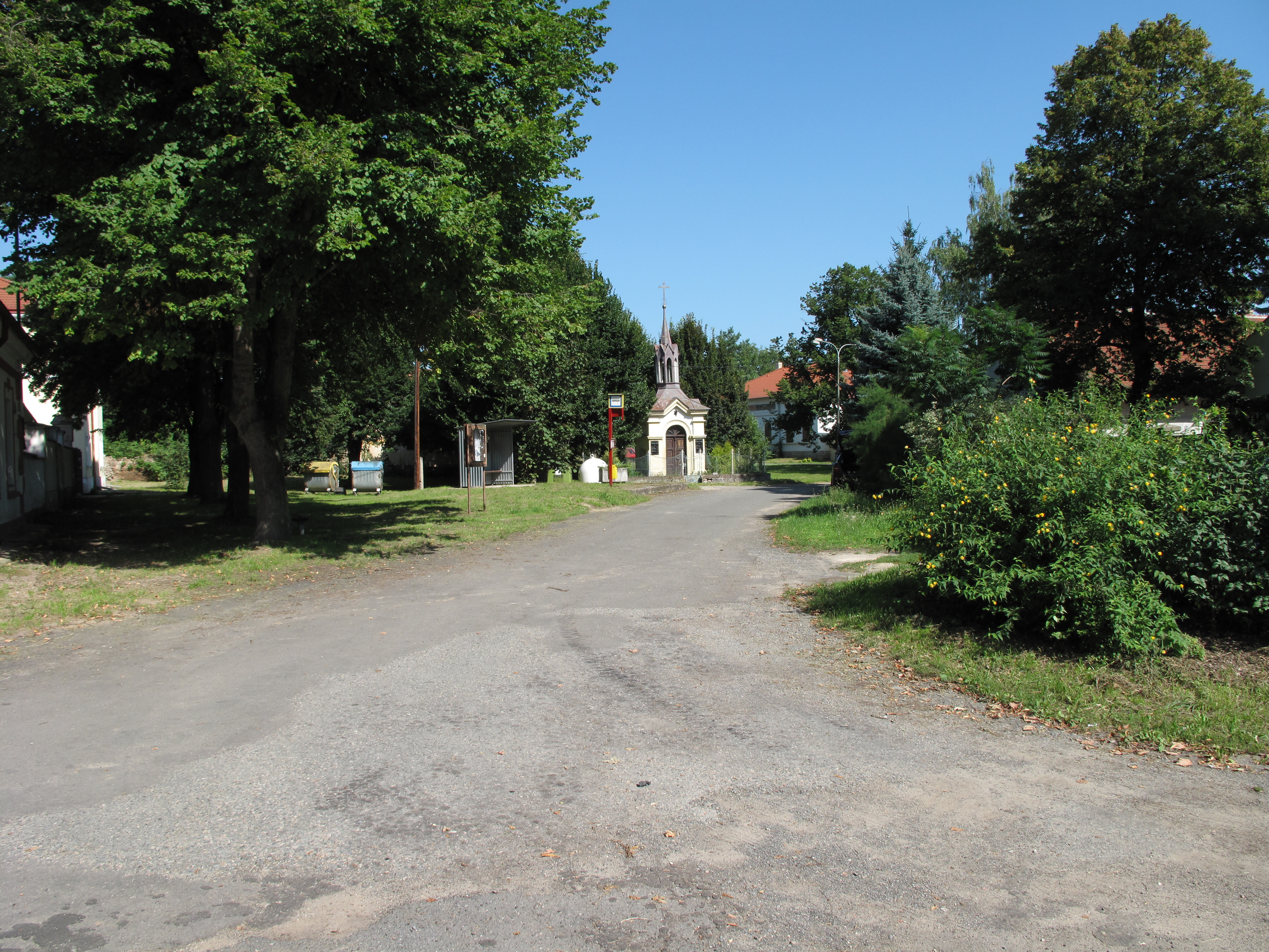 Village square in Žhery village, Kolín District, Czech Republic.